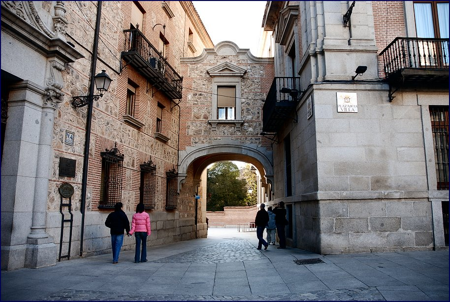 A view of the Calle de Madrid (street), beside the Plaza de la Villa (square) in Madrid (Spain). The passage between Casa de la Villa (right) and Casa de Cisneros (left) is a work of architect Luis Bellido González, as a part of the restoration and alteration plans that he projected in 1909, executed from 1910 to 1914.